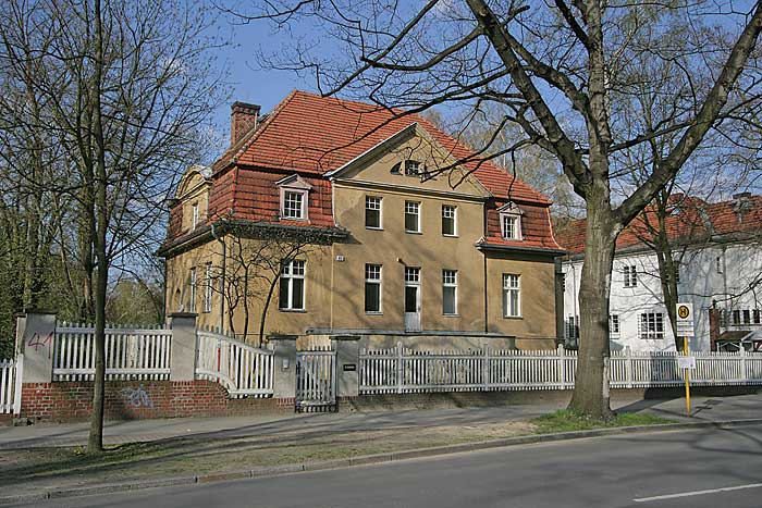 arndt-gymnasium dahlem